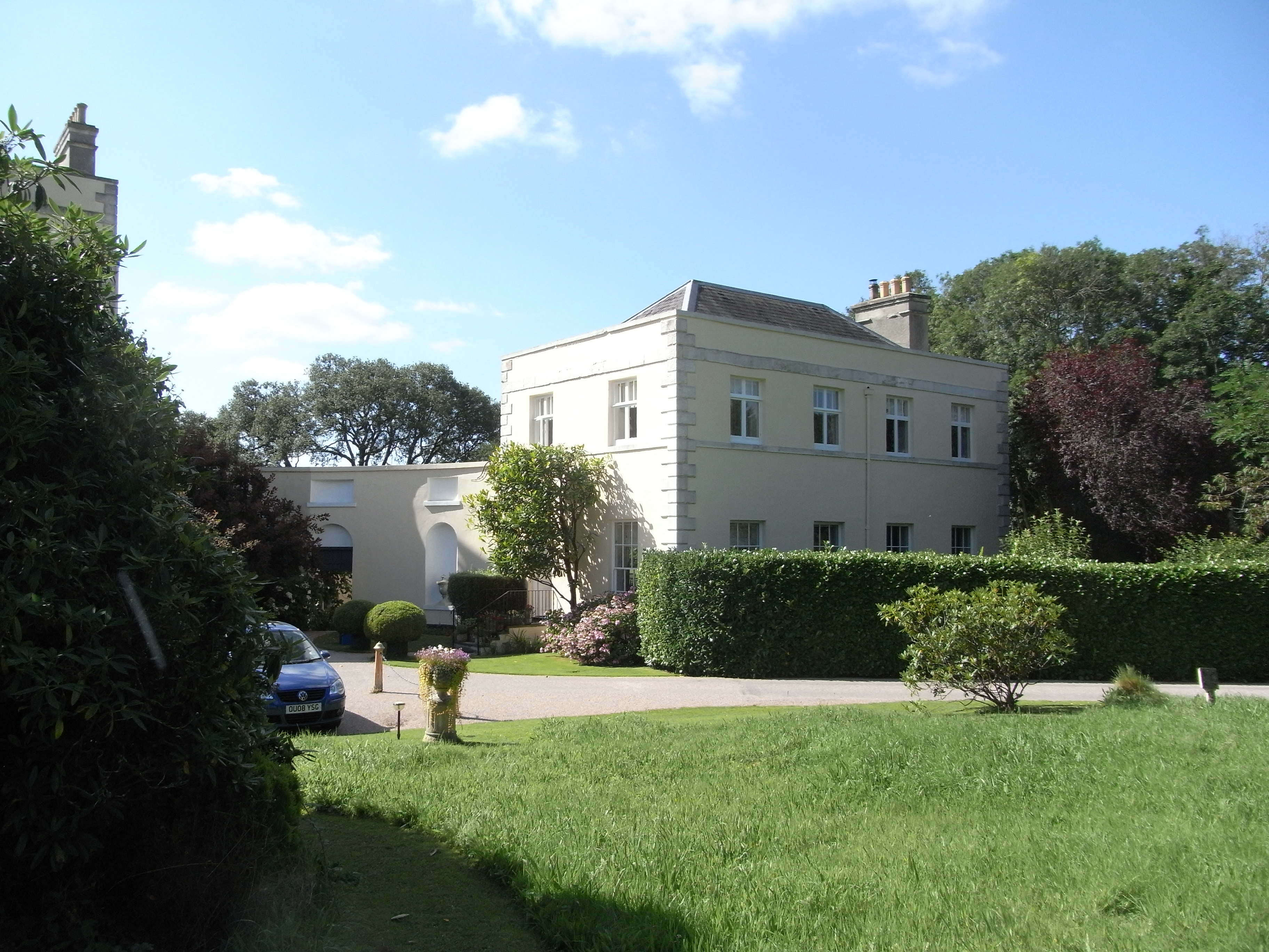 New Shute House, Axminster, Devon, view of west pavillion